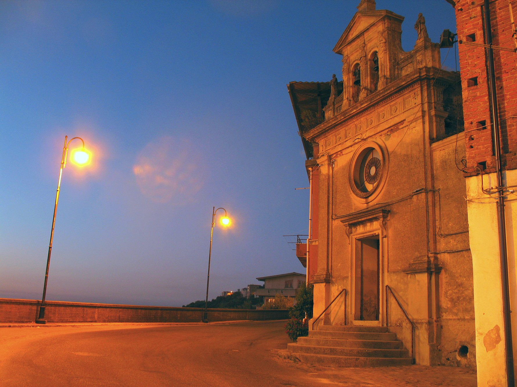 Church Saint Francis from Paola